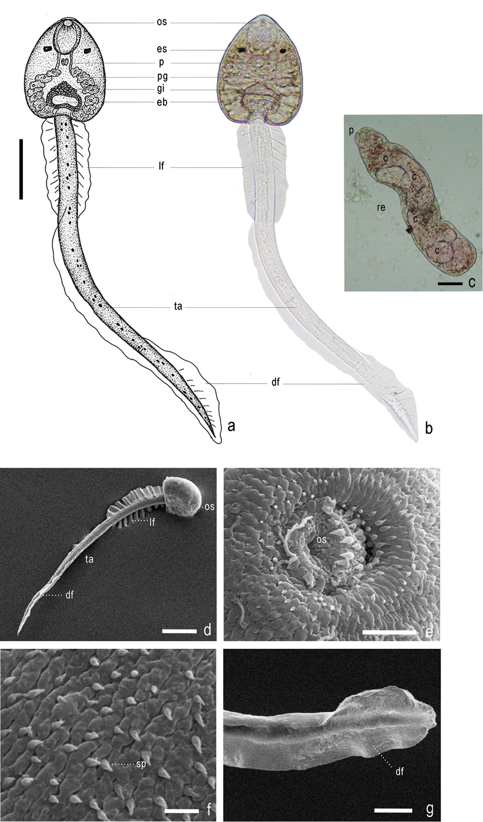 Figure 4; "Image of Haplorchis taichui; a. Drawing of cercaria structure b. Cercaria without staining c. Redia without staining d.–g. Images of Scanning Electronmicroscope Abbreviations: os – oral sucker, es – eye spot, p – pharynx, pg – penetration gland, gi – genital primordial, eb – excretory bladder, lf – lateral finfold, ta – tail, df – dorsal finfold, re – redia, c – cercaria, sp – spine (scale a, b = 100 µm, c = 20 µm)."